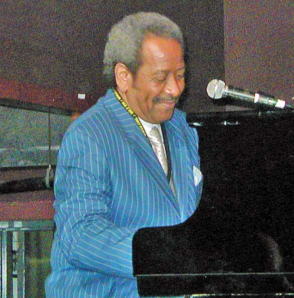 Allen Toussaint at Piano Night.